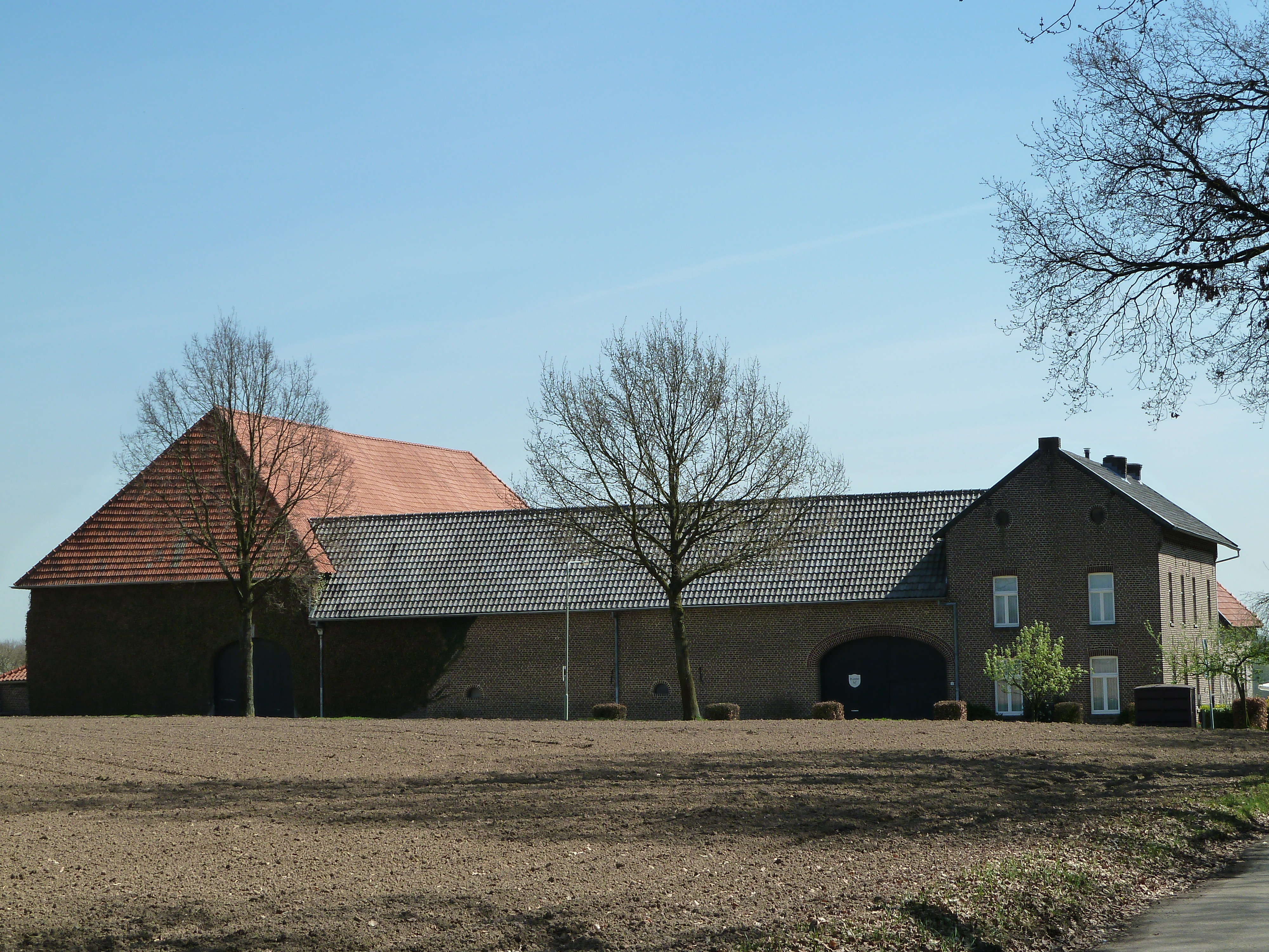 Stammen 1, Sweikhuizen, Limburg, the Netherlands